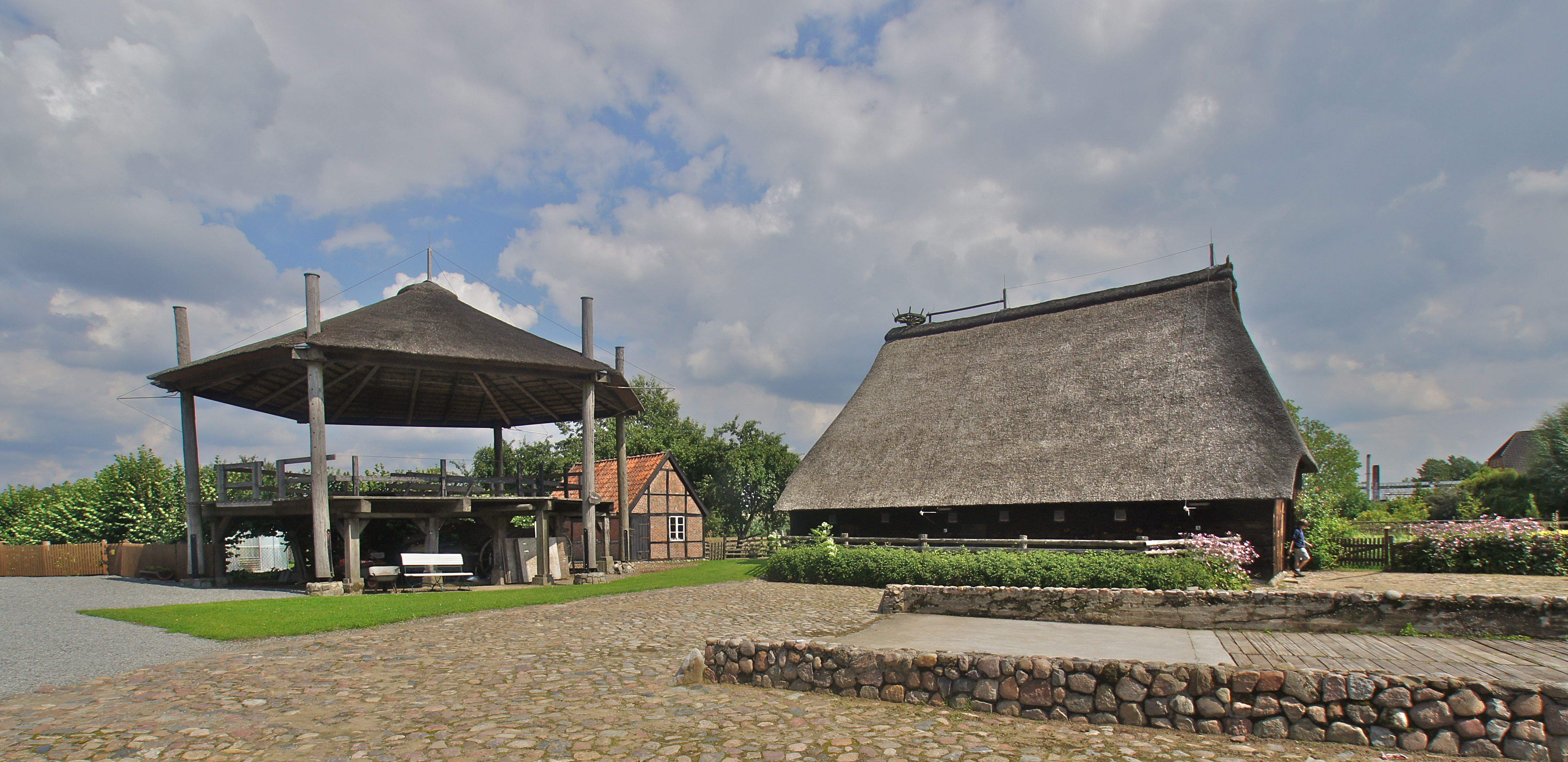 Hamburg (Curslack), Germany: Open Haystack in the Rieckhuus